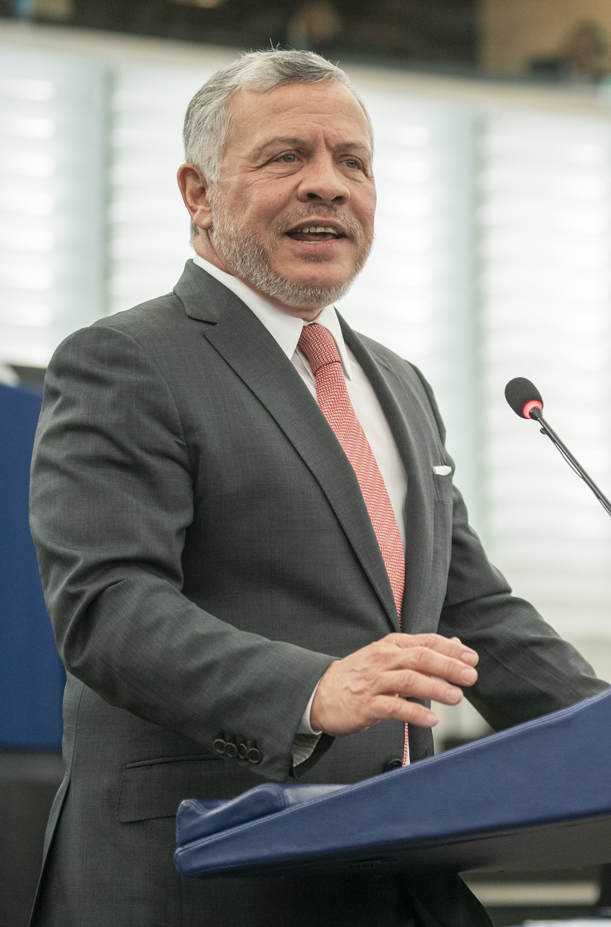 “Peace-making is the harder but higher path,” said King Abdullah II of Jordan addressing the European Parliament in Strasbourg today.